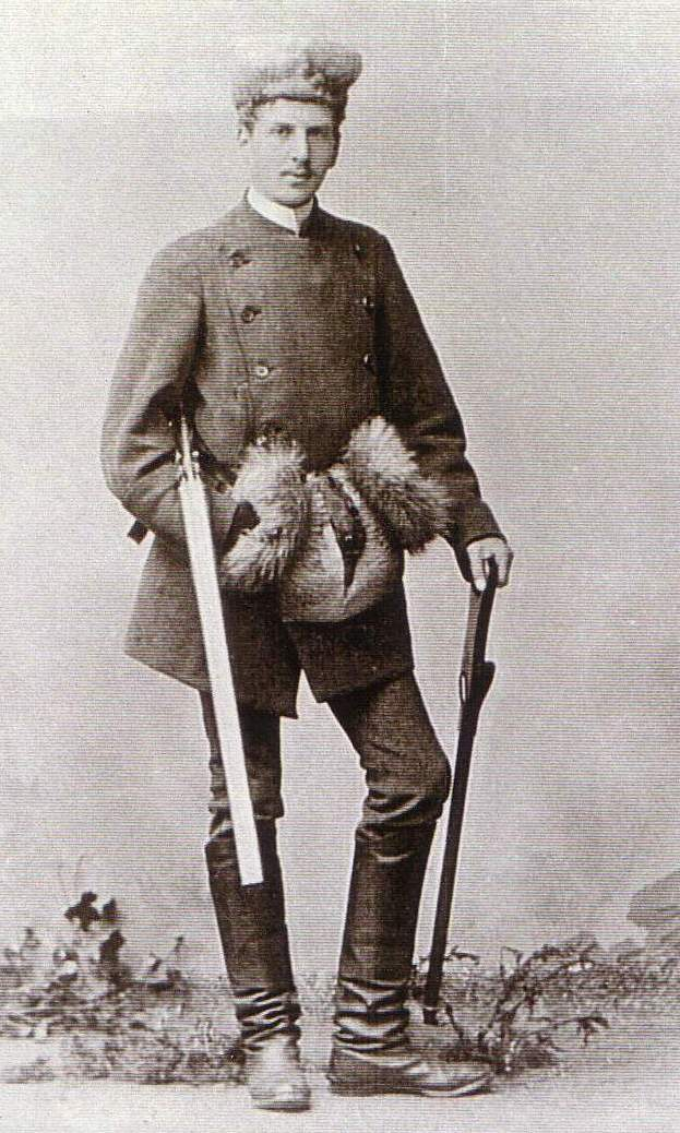 Simon von nathusius, later professor in Halle